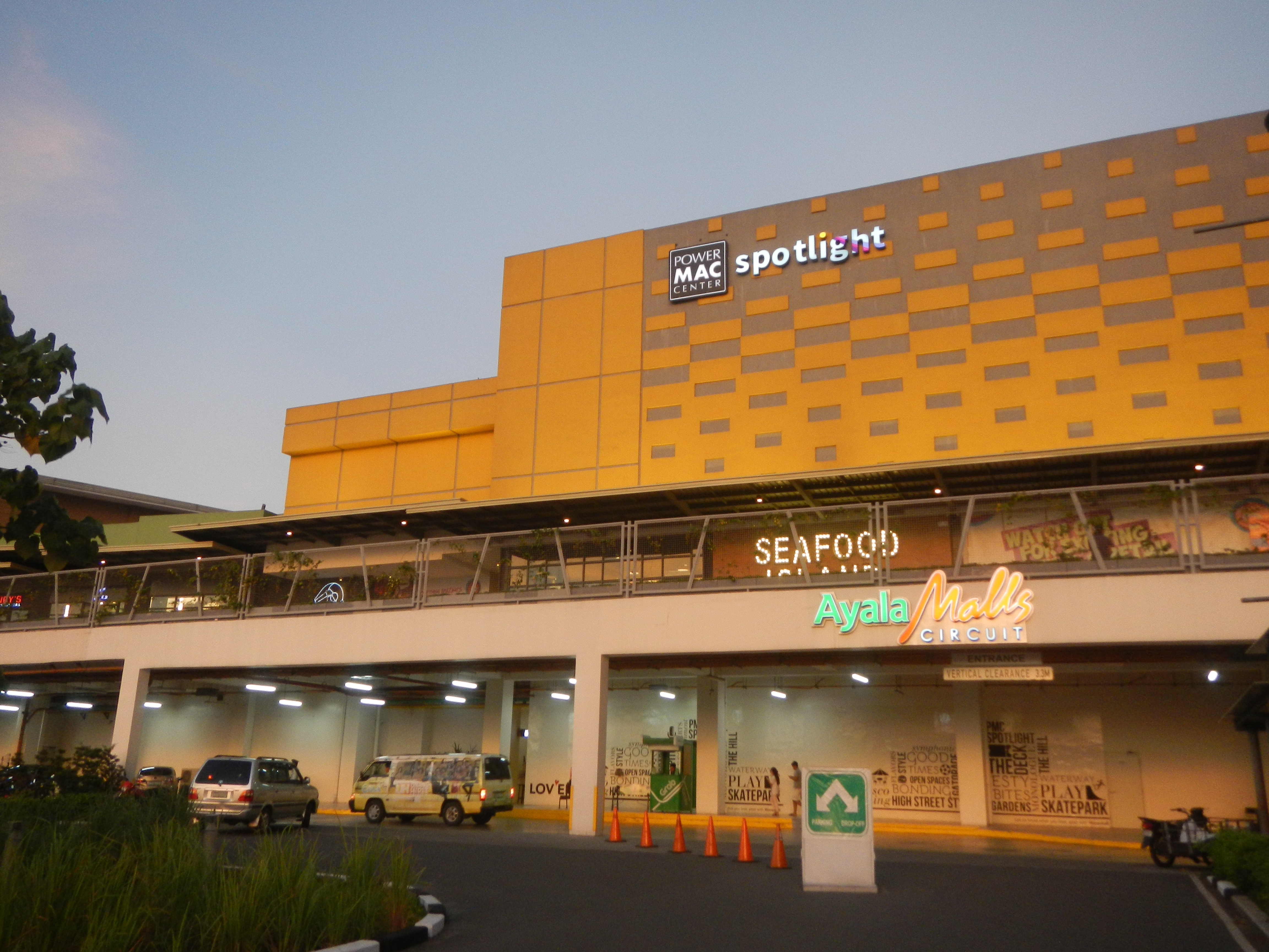 Circuit Makati A. P. Reyes Street 14°34'28"N 121°0'59"E Philippine Racing Club, Inc. Property (Makati) 14°34'25"N 121°1'1"E Carmona Sports Complex 14°34'31"N 121°1'0"E A.P. Reyes Avenue cor. P. Pascua Street 14°34'31"N 121°1'0"E Circuit Makati 14°34'29"N 121°1'9"E Carmona, Makati Carmona 14°34'32"N 121°1'6"E Circuit Makati A. P. Reyes Street Hippodromo Street corner Theatre Drive to Riverfront Drive, West Gala Drive to South Avenue A. P. Reyes Street Sapote Street Ayala Malls Ayala Malls Circuit Lane Ayala Land Makati Central Business District from J.P. Rizal Avenue Makati Central Business District (Downtown Makati) 14°33'21"N 121°1'16"E List of barangays of Metro Manila, Legislative districts of Makati, Barangay Pio del Pilar 14°33'13"N 121°0'37"E Carmona, Makati Carmona 14°34'32"N 121°1'6"E Olympia 14°34'19"N 121°1'11"E Tejeros 14°34'18"N 121°0'48"E Kasilawan 14°34'38"N 121°0'54"E Makati City (Note: Judge Florentino Floro, the owner, to repeat, Donor Florentino Floro of all these photos hereby donate gratuitously, freely and unconditionally all these photos to and for Wikimedia Commons, exclusively, for public use of the public domain, and again without any condition whatsoever).